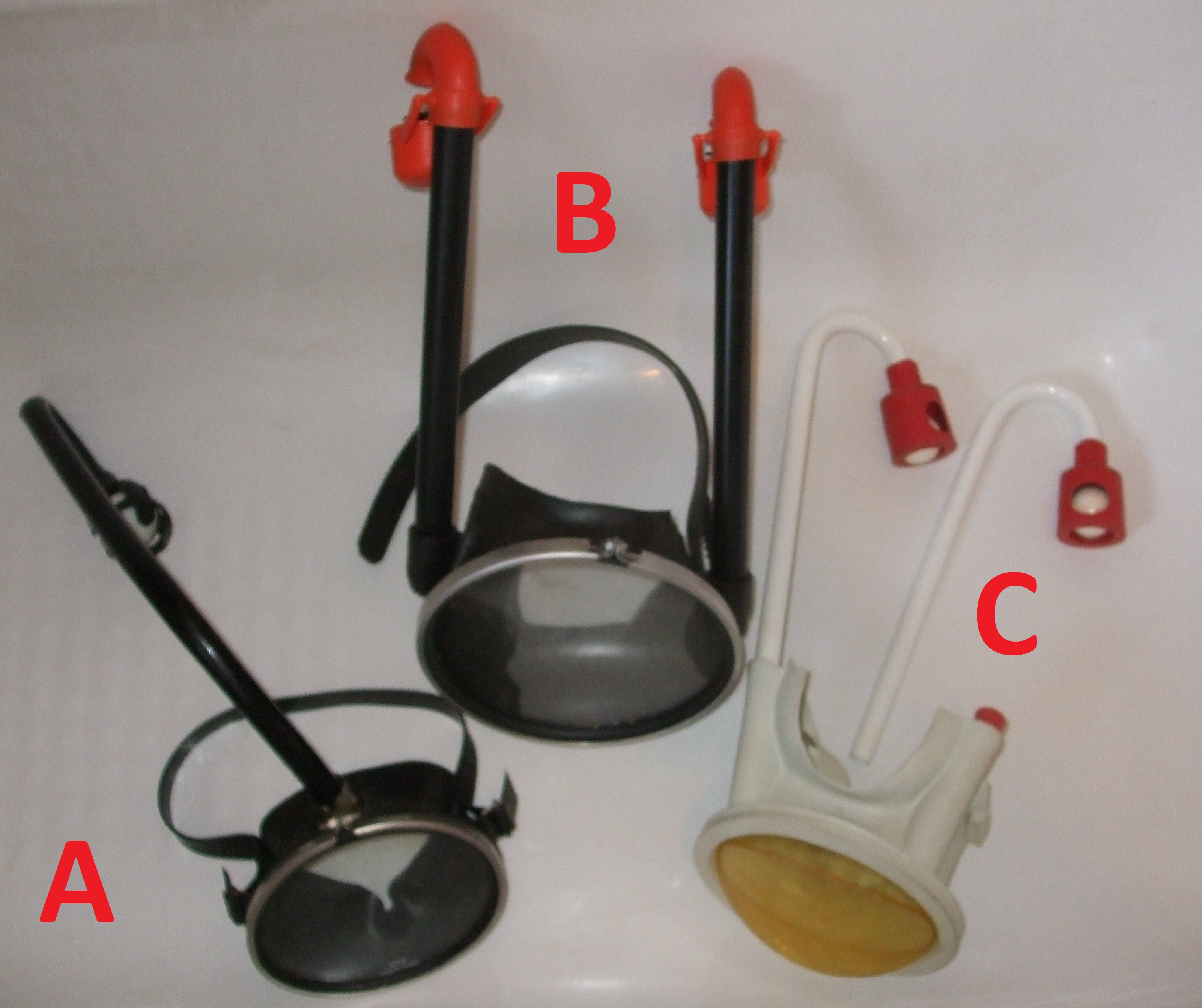 Three types of older-generation snorkel masks are illustrated. Type A: A model enclosing the eyes and the nose only. A permanent single snorkel emerges from the top of the mask and terminates above with a shut-off ball valve. Type B: A model with a chinpiece to enclose the eyes, the nose and the mouth. Permanent twin snorkels emerge from either side of the mask and terminate above with shut-off "gamma" valves. Type C: A model enclosing the eyes and the nose only. Removable twin snorkels emerge from either side of the mask and terminate above with shut-off ball valves. Supplied with plugs for use without snorkels, as illustrated.